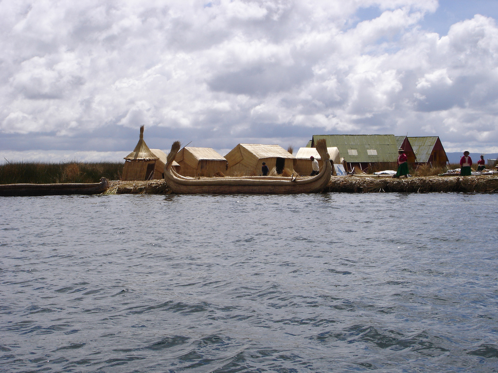 Islands of Uros, Titicaca Lake